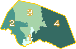 Graphic of Williamson County, Precincts